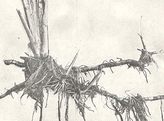 Typha latifolio, Rootstock Subject: Typha latifolia Tag: Aquatic Botany